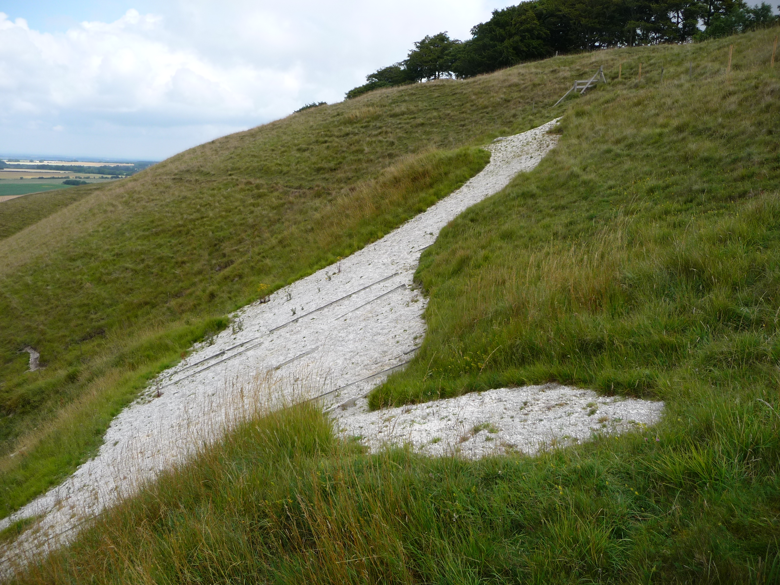 Cherhill